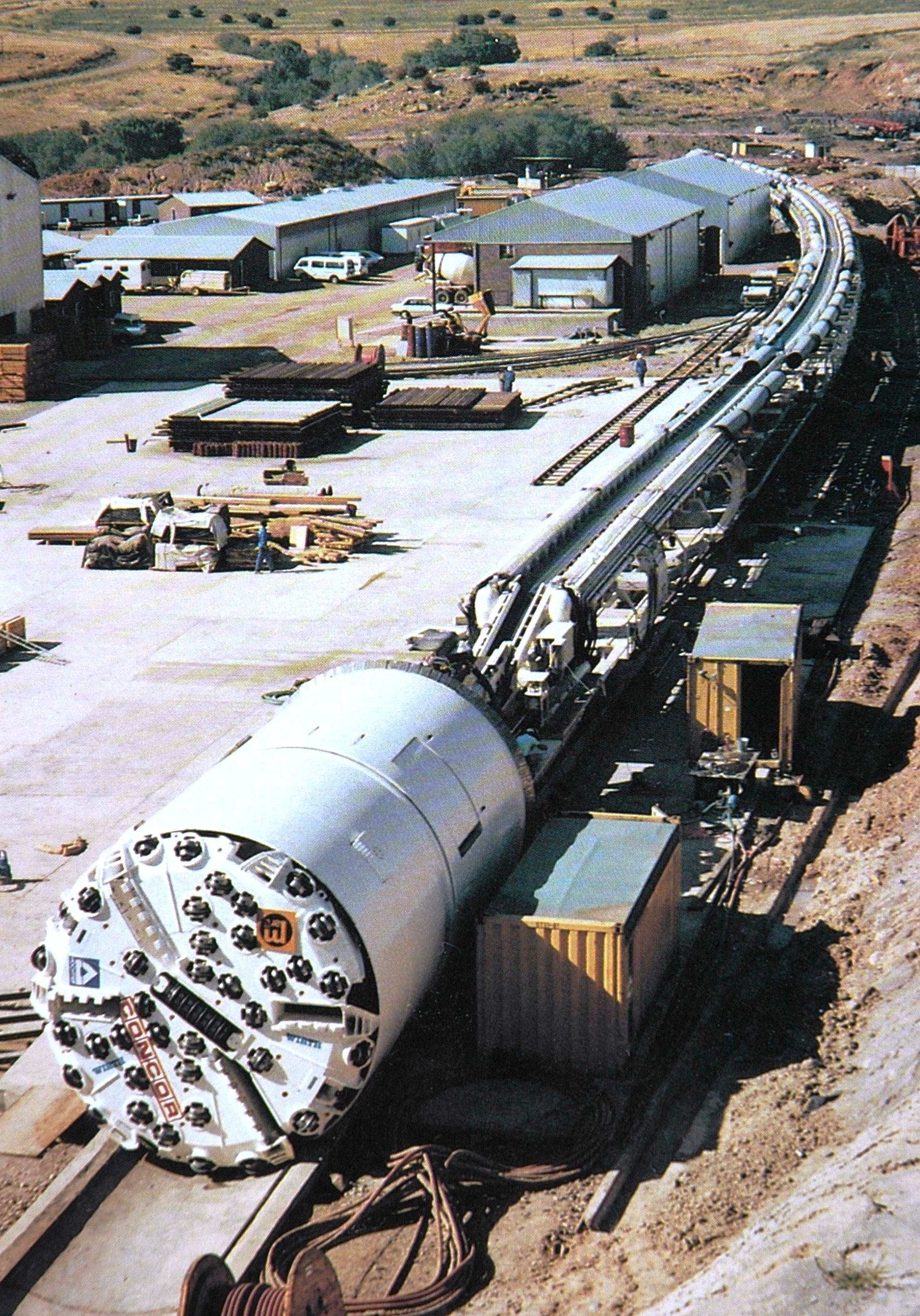 WIRTH 529 Telescopic Shielded TBM